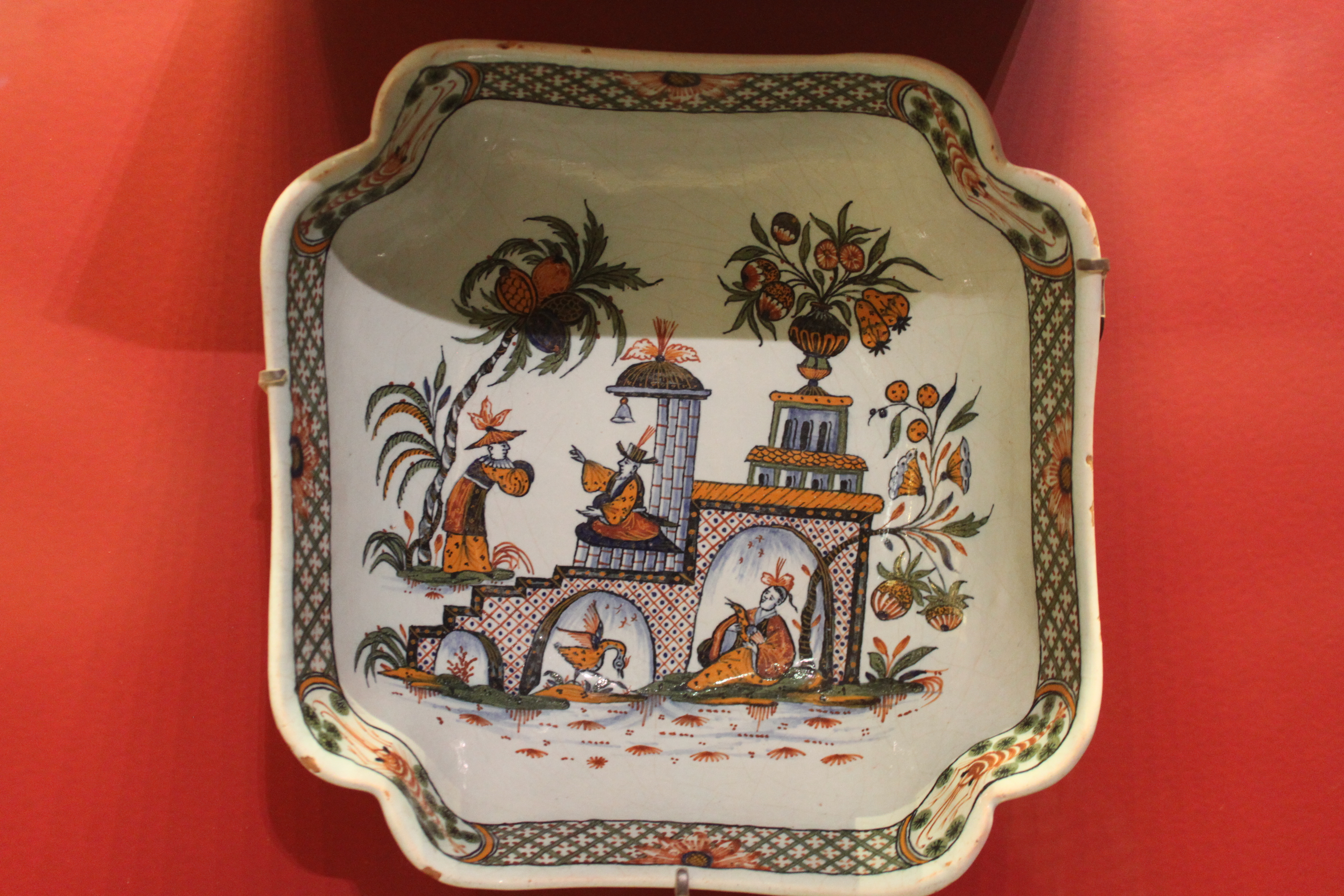 Square dish with chinese scene - Rouen - 1725 -1740 - Louvre museum - inventory number OA 7791 - Room 37